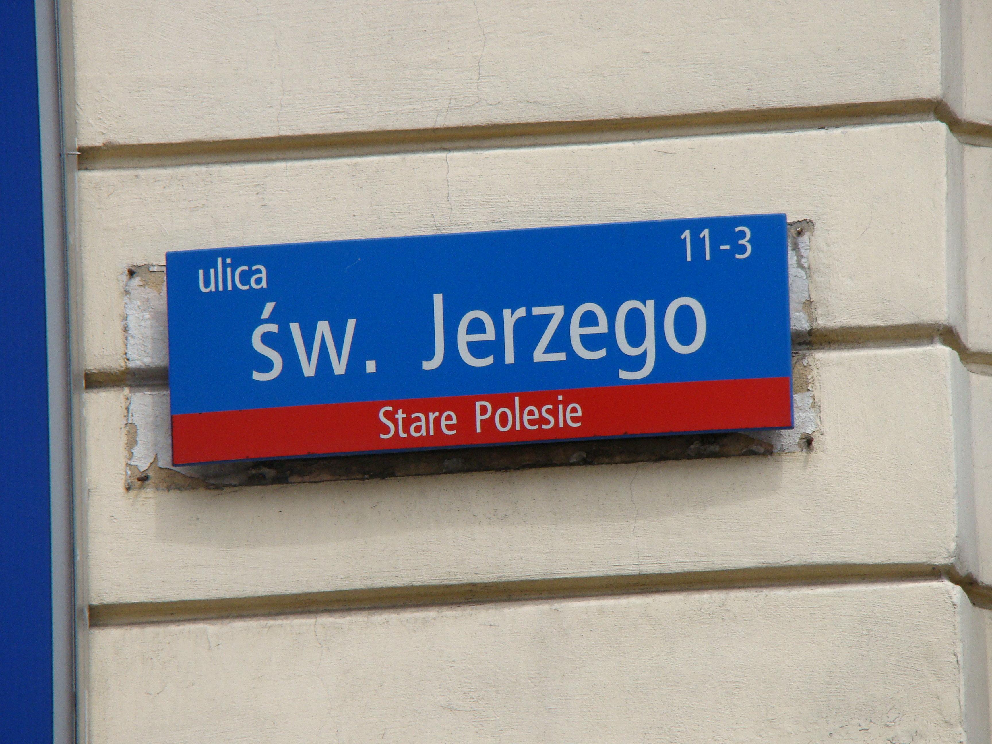 Saint George Street in Łódź